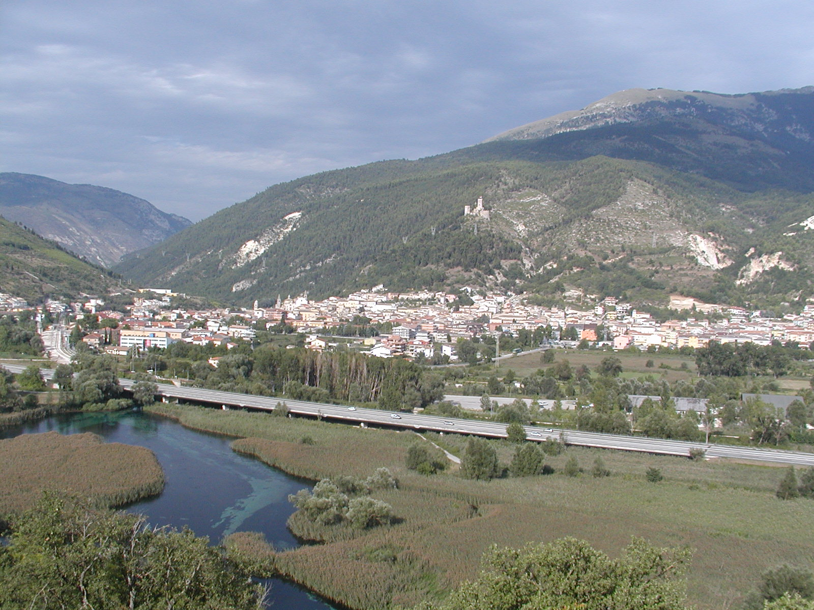 A view of a spring, with Popoli in the background